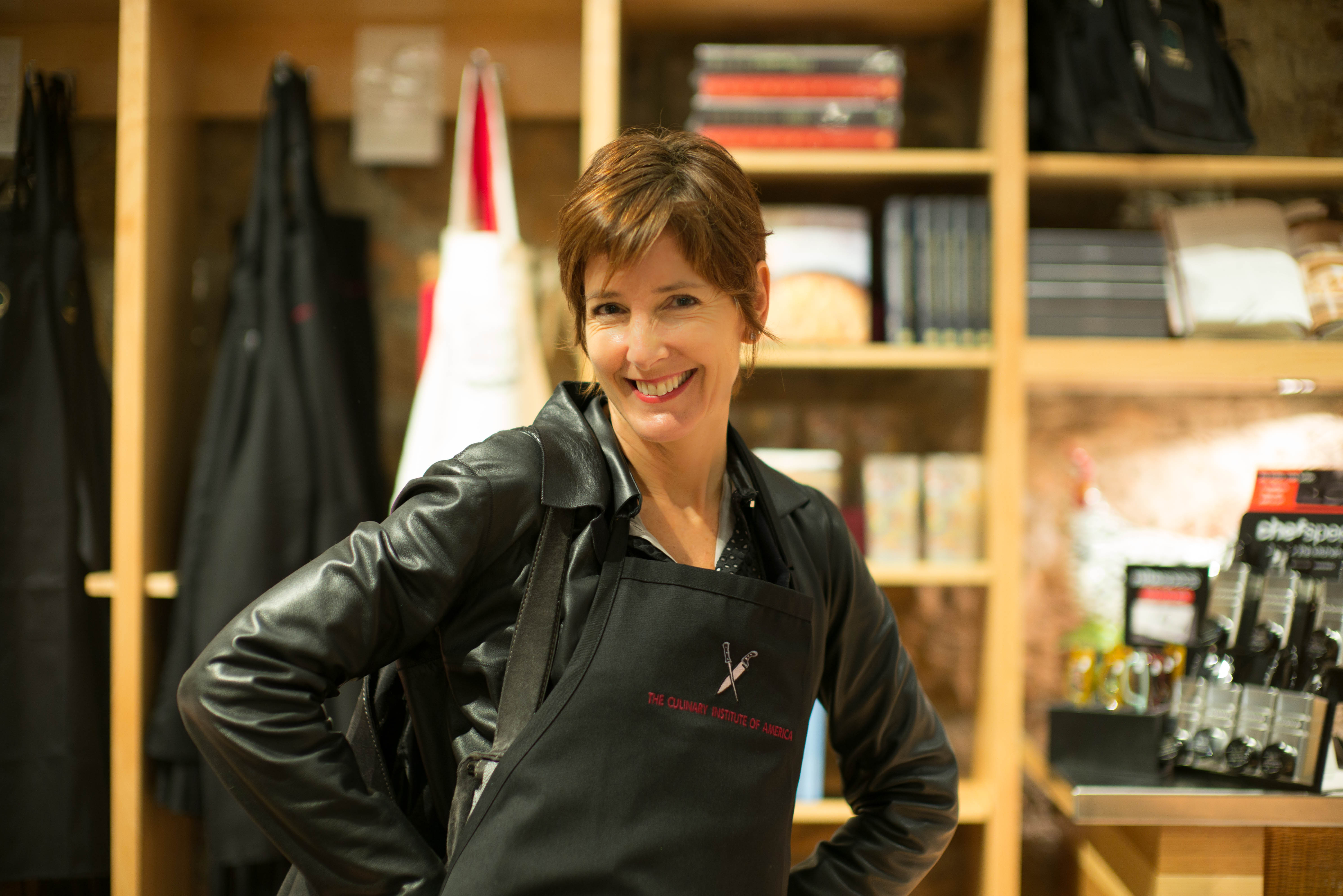 Jane Metcalfe in Napa Valley in 2014